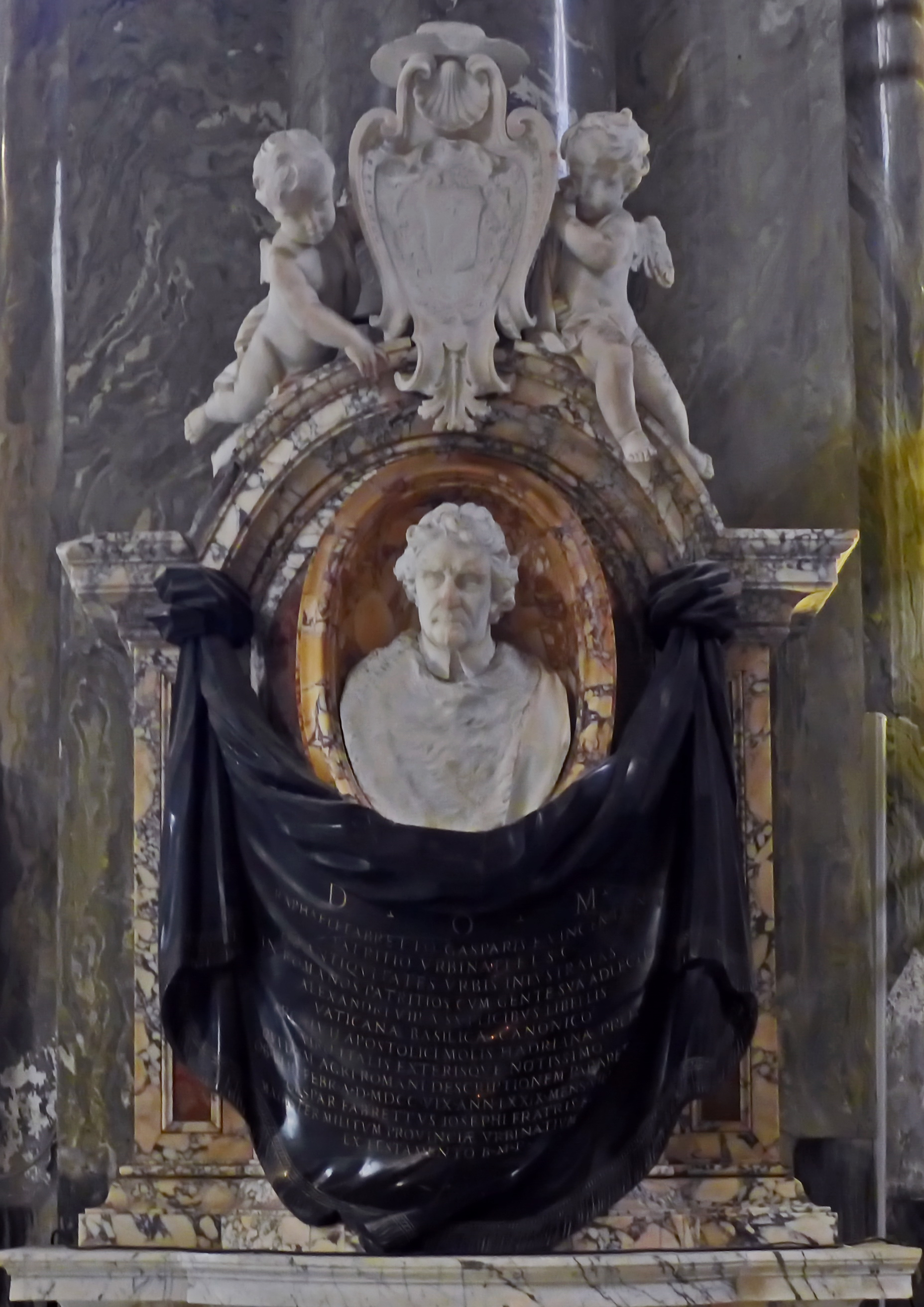 Santa Maria sopra Minerva (Rome), Funerary monument for Raffaele Febretti